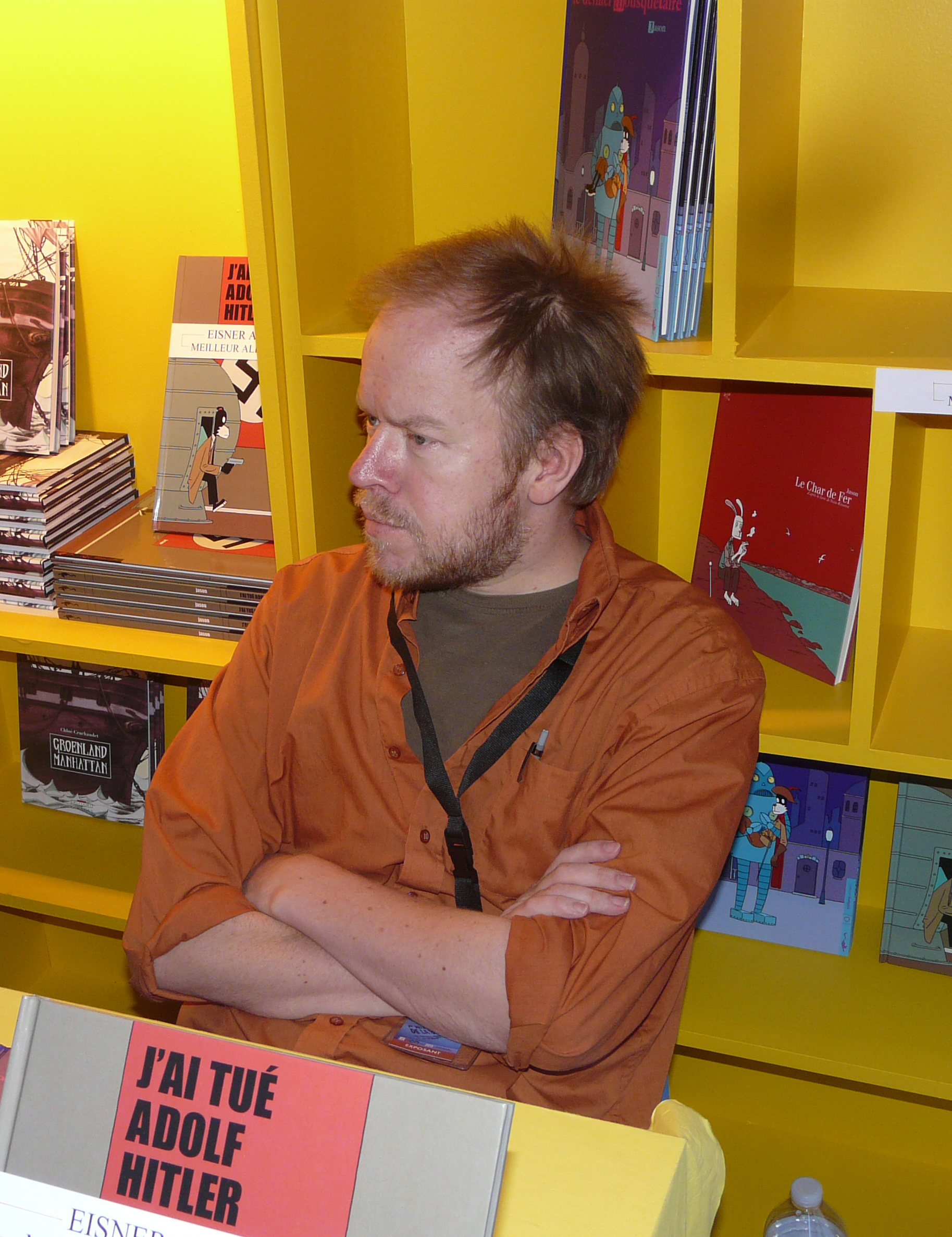 Photographs taken during the Comic Festival "O tour de la bulle" of Montpellier, France